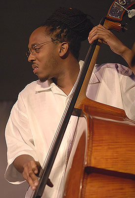 Double bassist Corcoran Holt